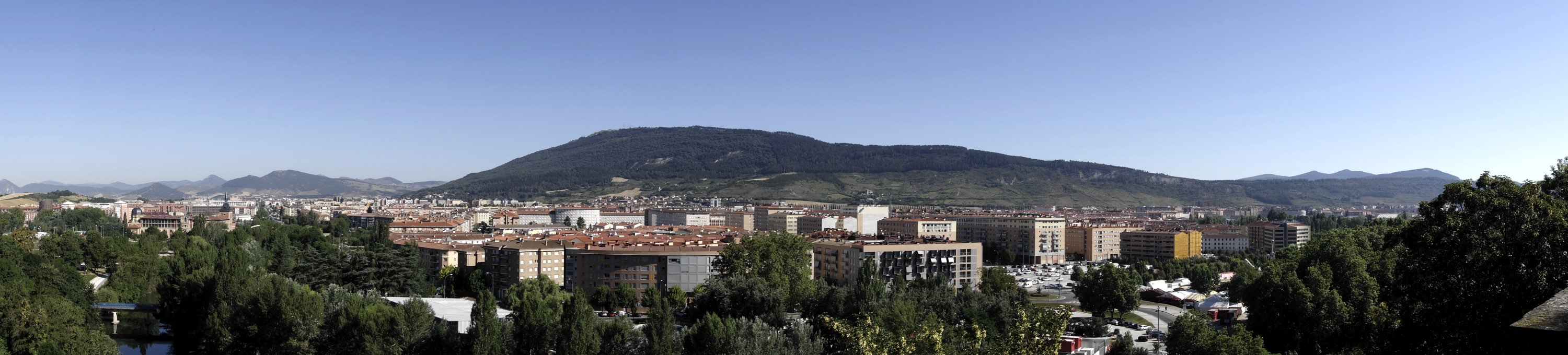 Pamplona outskirts view from city centre.